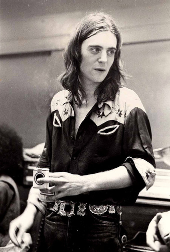 Reid backstage at the Bitter End, NYC Photo was taken in 1974